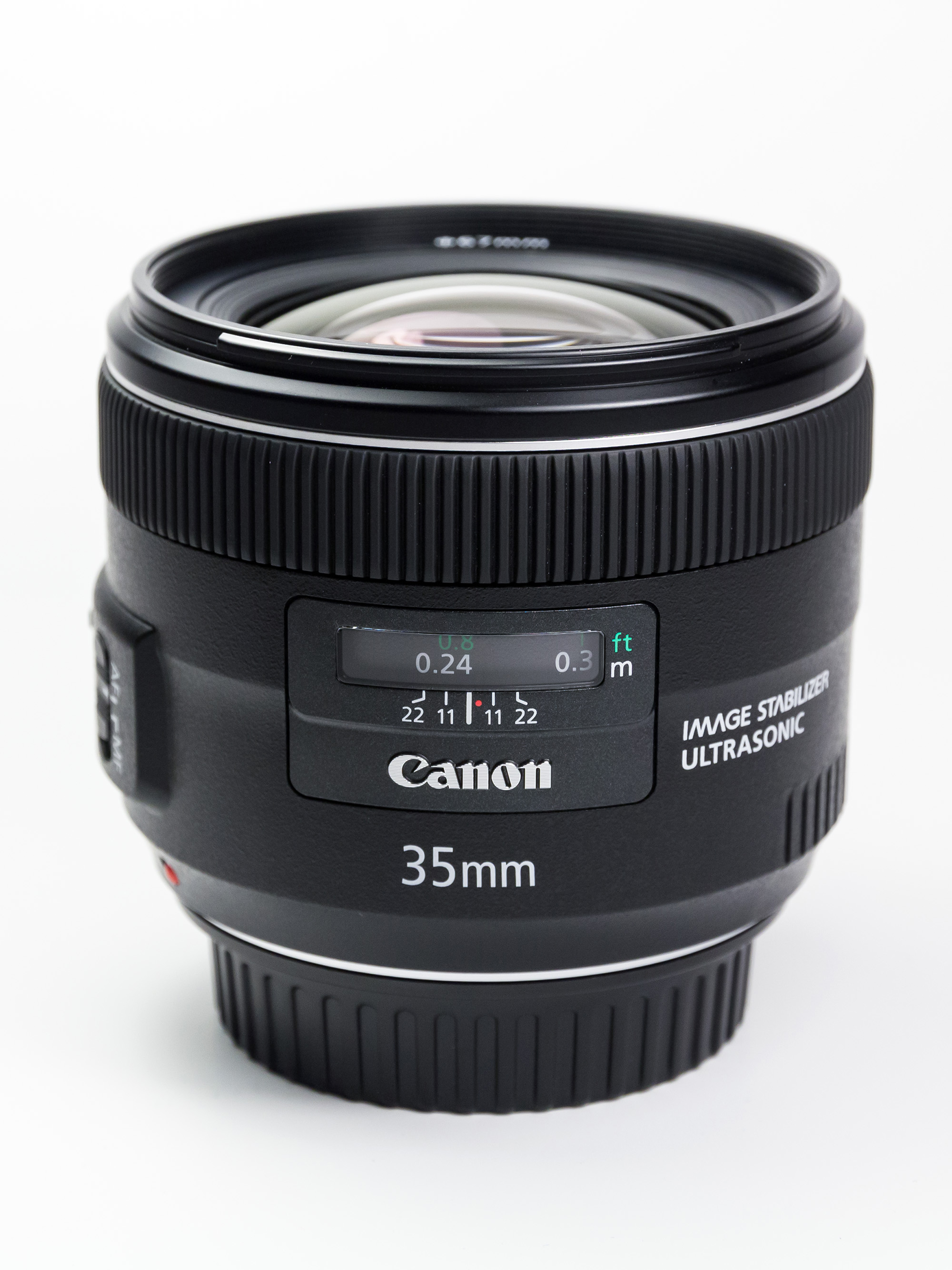 Canon EF35mm F2 IS USM